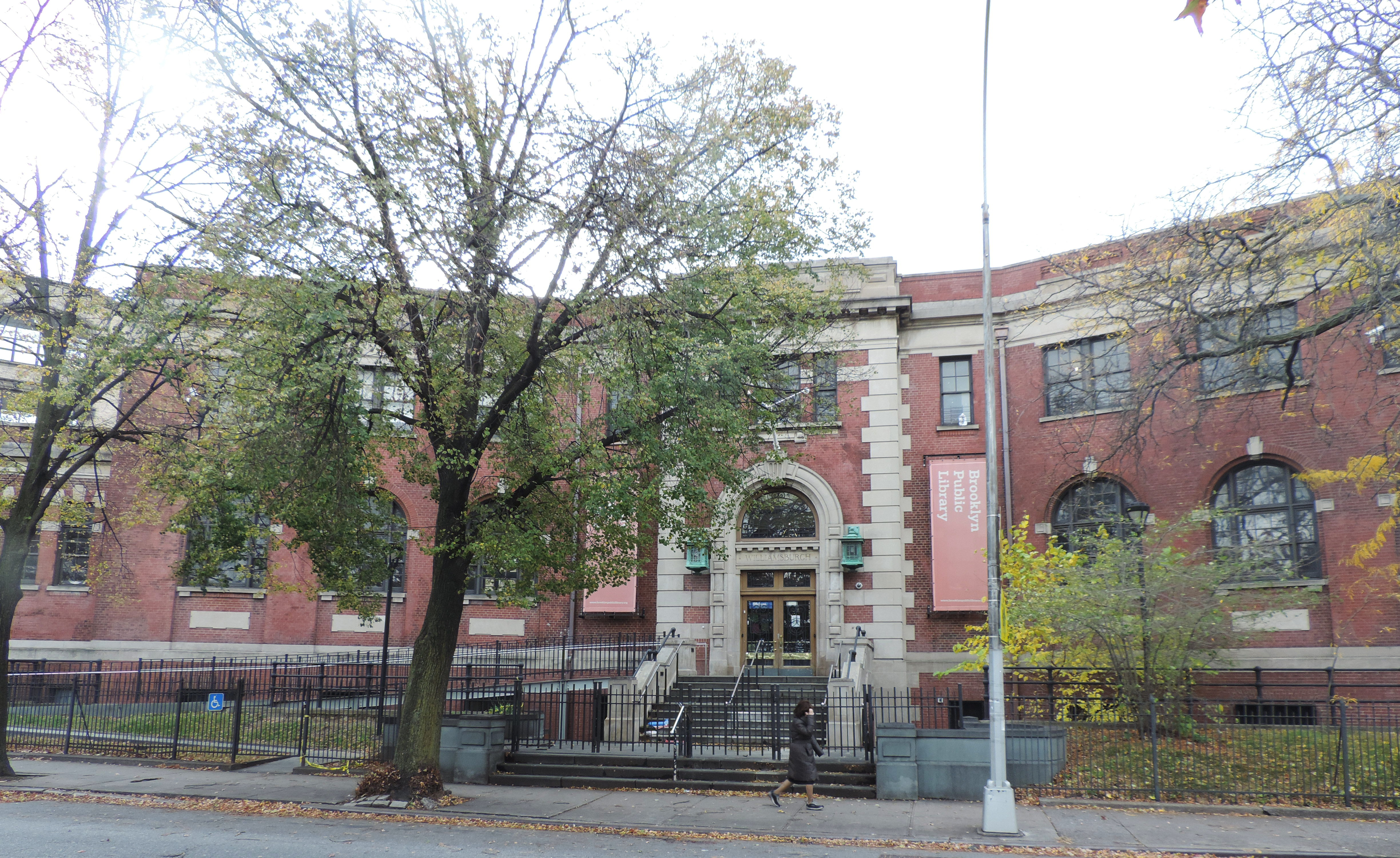 Looking southeast from Division Avenue on a cloudy day.